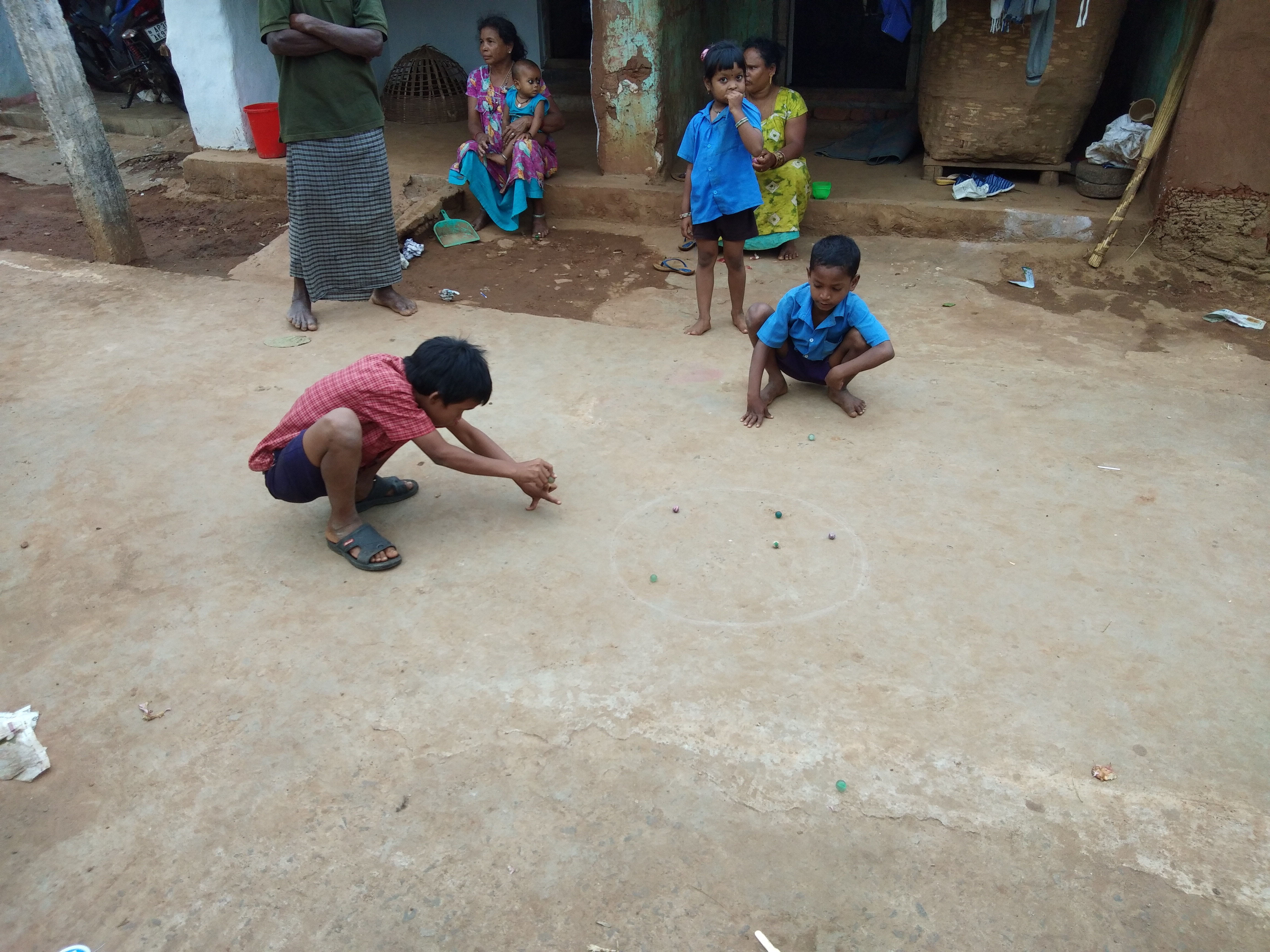 In India Goli Gundu game is very popular and traditional games played in villages This photo has been taken in the country: India